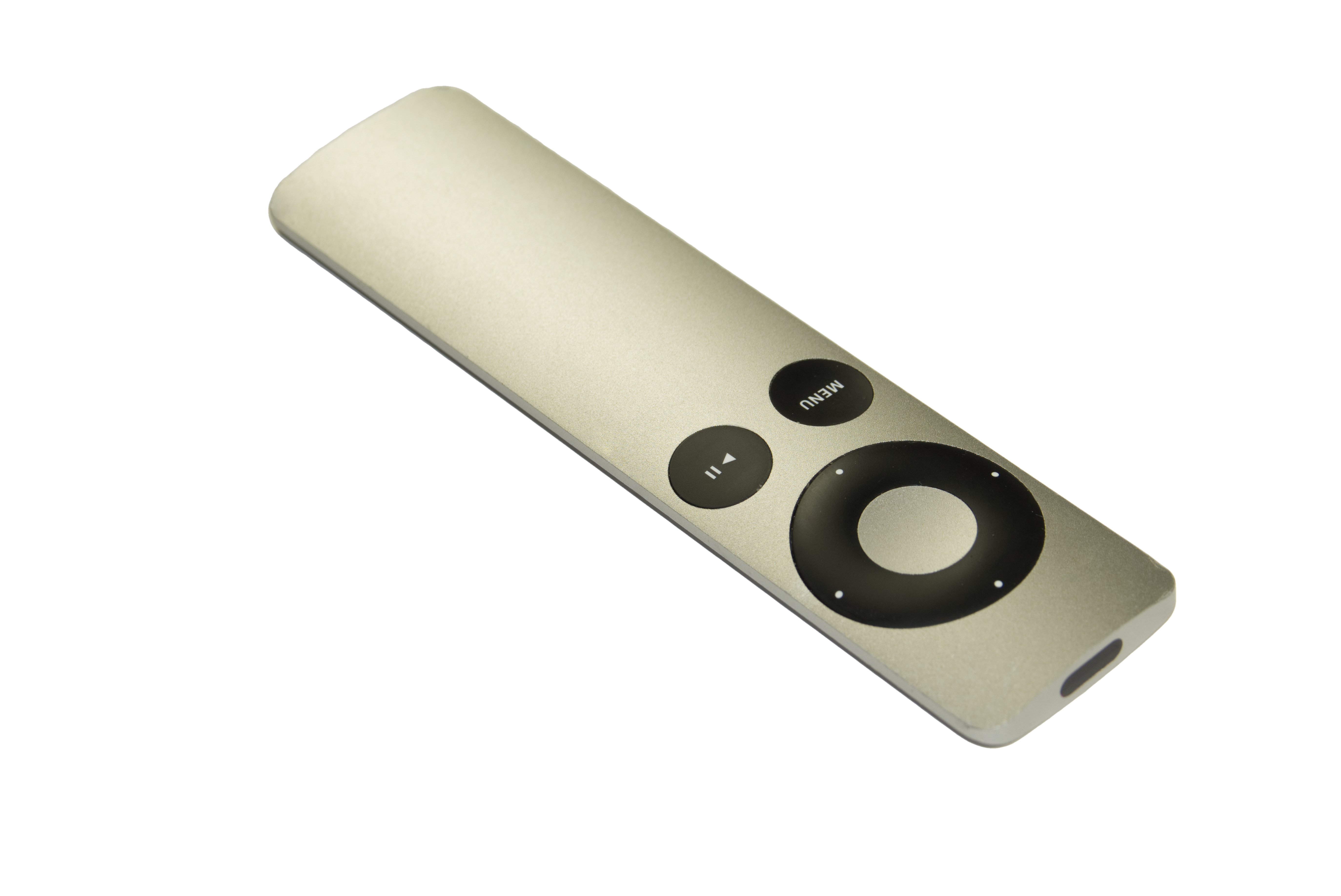 Remote for the Apple TV (2nd and 3rd generation)